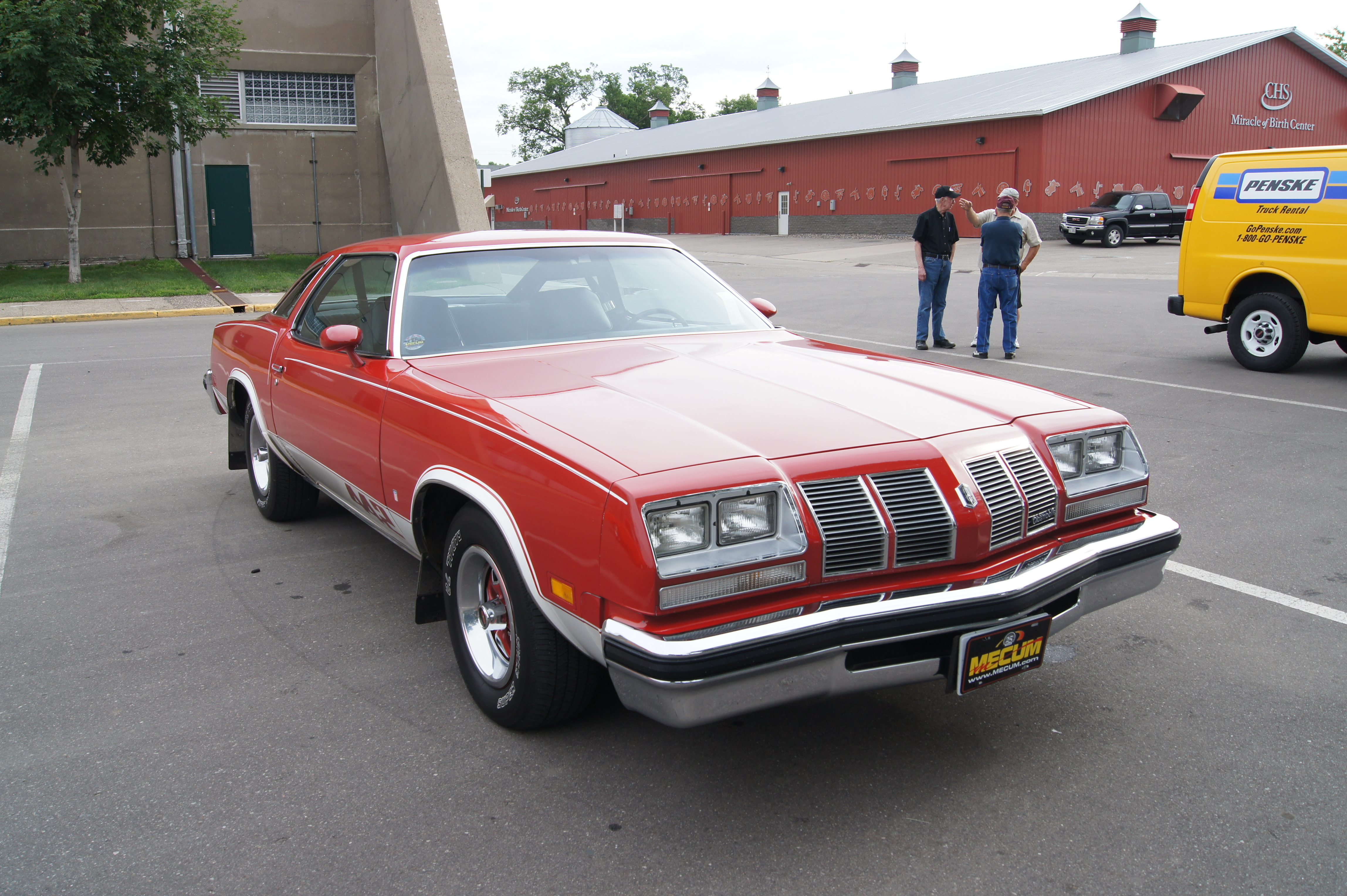 Minnesota Street Rod Association "Back to the Fifties" June 2012 Minnesota State Fairgrounds St. Paul MN